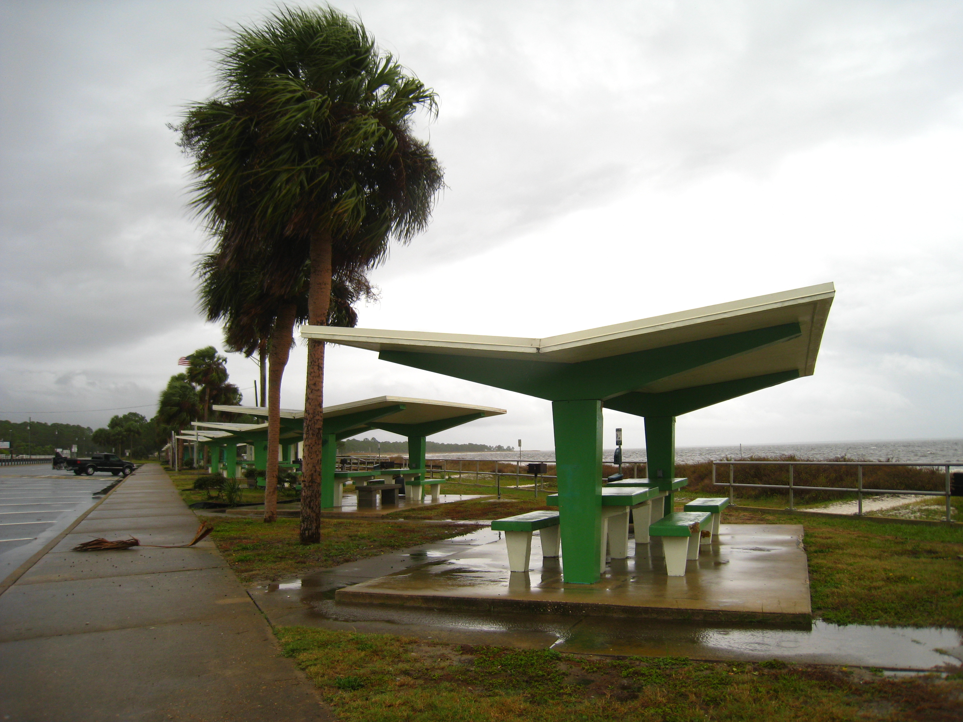 Picnic area in park at Carrabelle Beach, Florida.